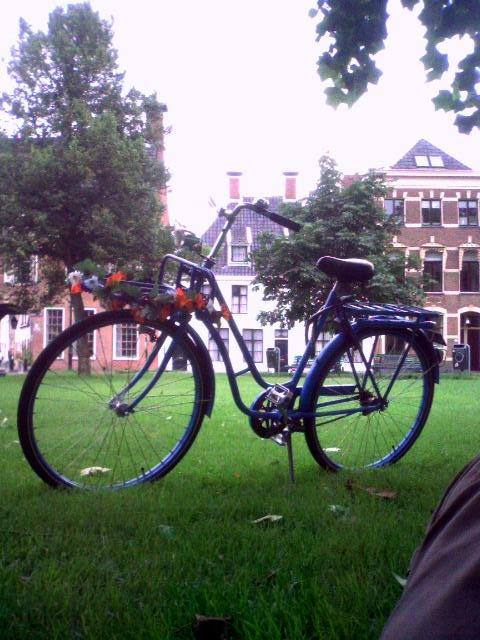 A Kronan bicycle on the streets of Warsaw, Poland.